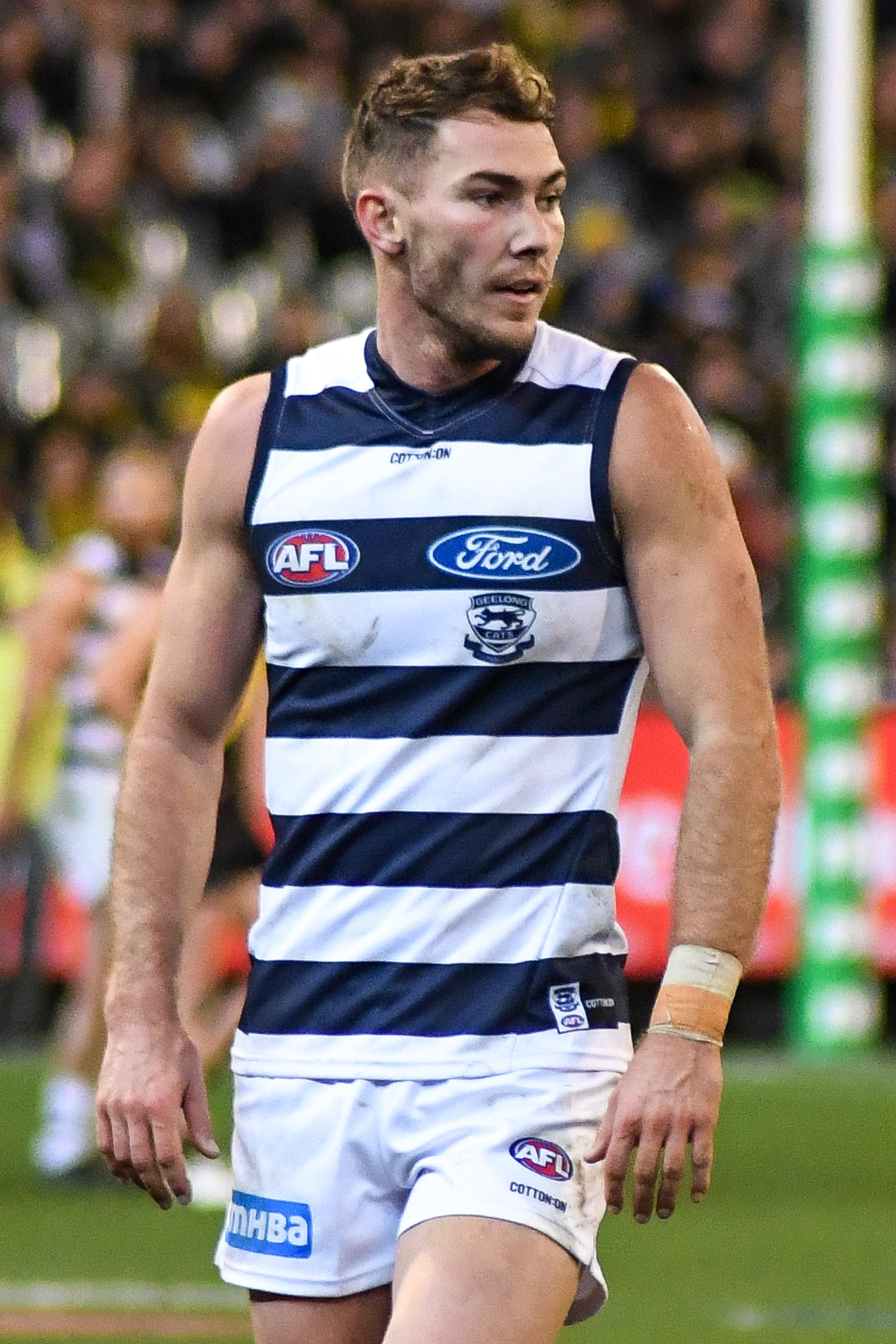 Jackson Thurlow of Geelong during the 2018 AFL round 20 match between Richmond and Geelong at the Melbourne Cricket Ground on Friday, 3 August 2018 in Melbourne, Victoria.